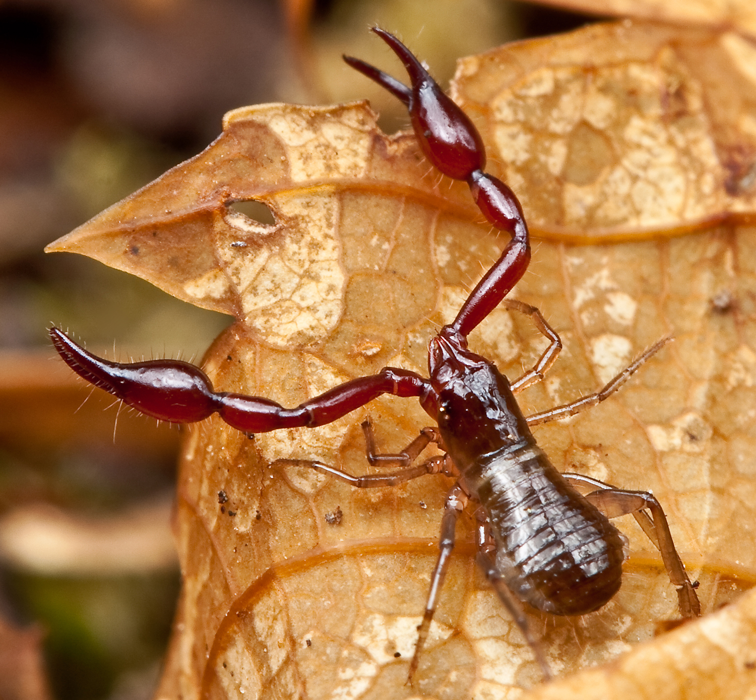 A Neobisiid pseudoscorpion collected by Casey Richart & Bill Leonard, in Thuja + Abies + Tsuga habitat, St. Joe National Forest, Idaho